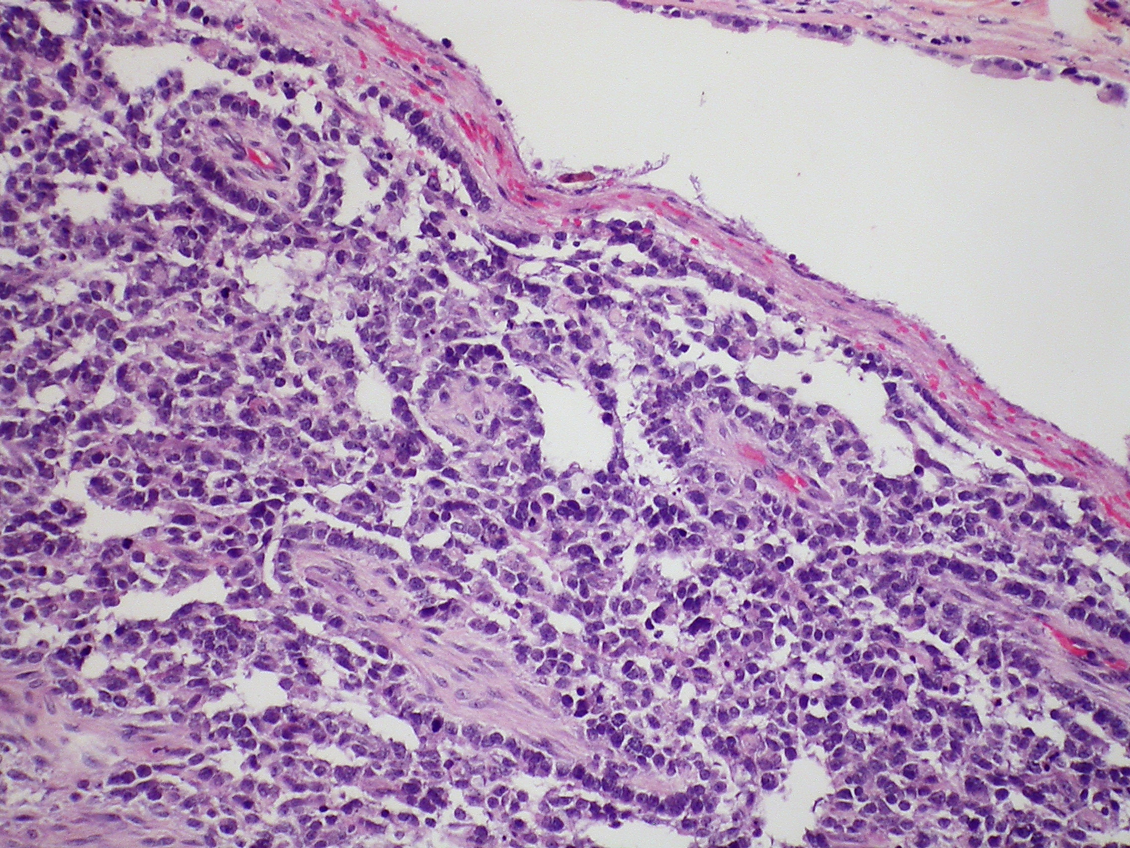 Metastatic testicular endodermal sinus tumor (yolk sac tumor).